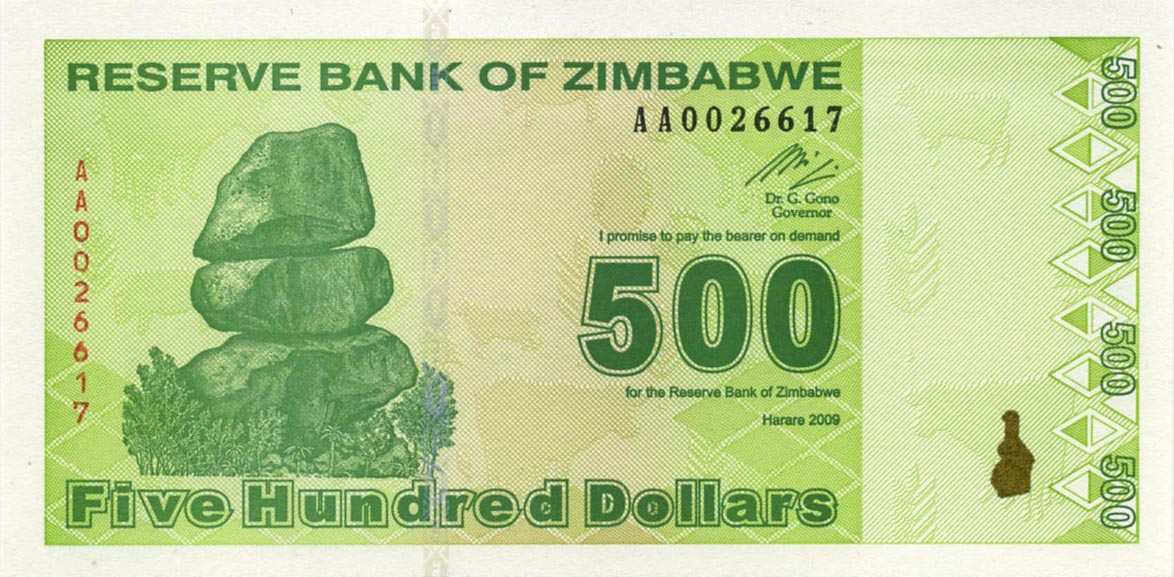 $500 Zimbabwe 2009 Obverse